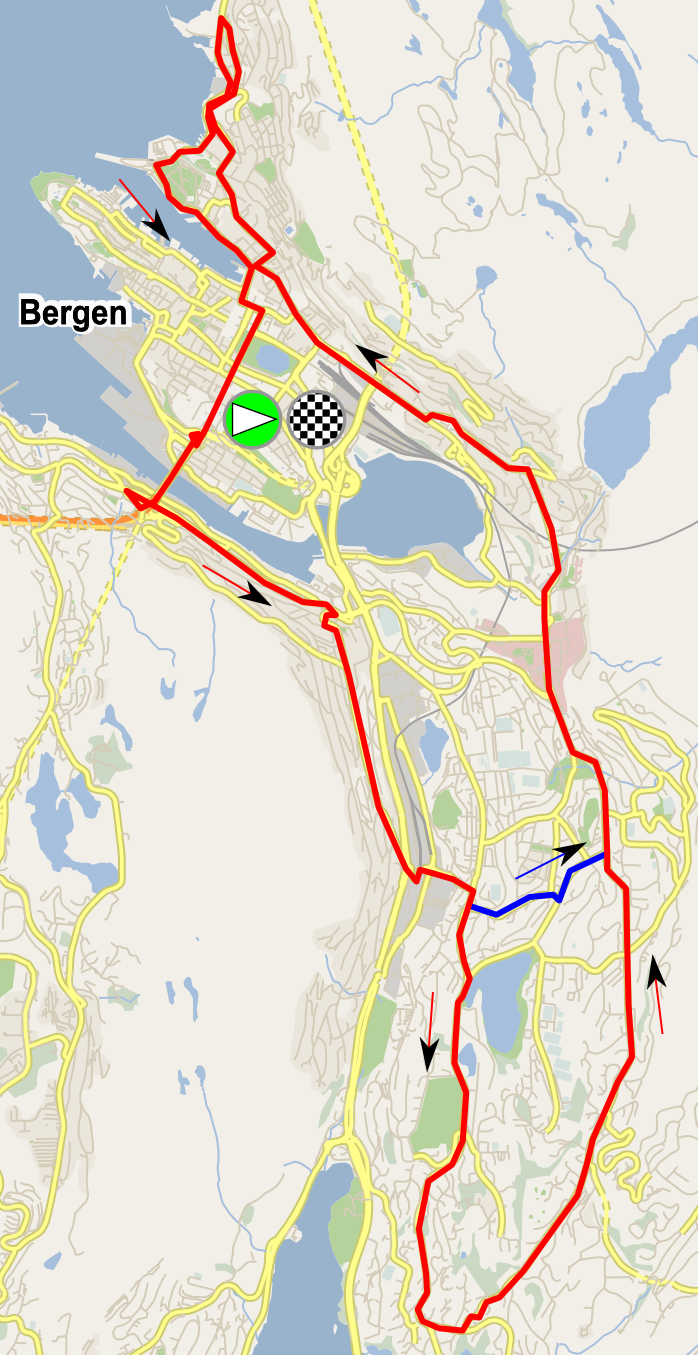 Circuit of the UCI Road World Championship 2017